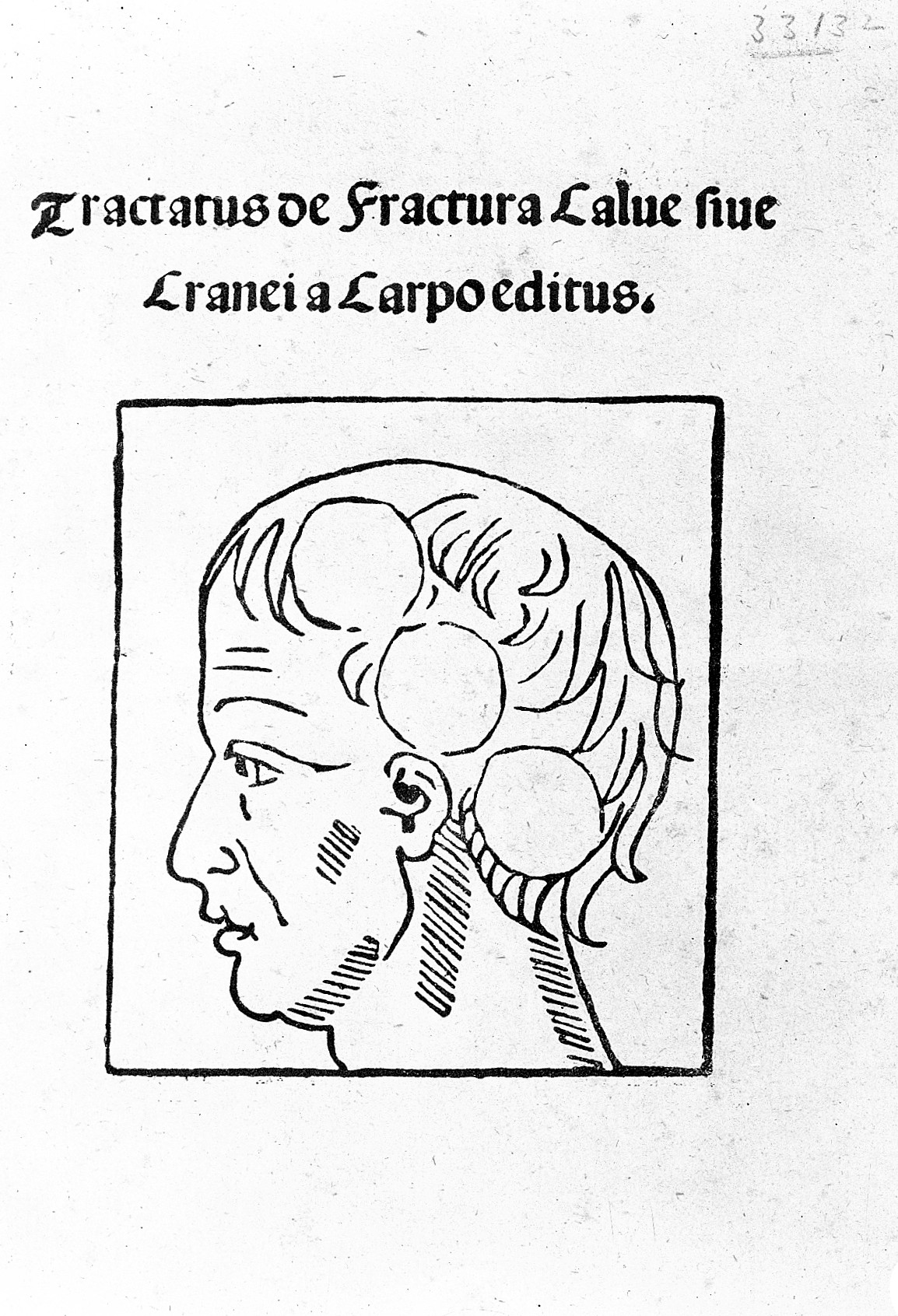 Brain Rare Books Keywords: anatomy, 16th century; dissection, 16th century; neurology, 16th century; pathology, 16th century; physiology, 16th century; Jacobus Carpensis Berengarius